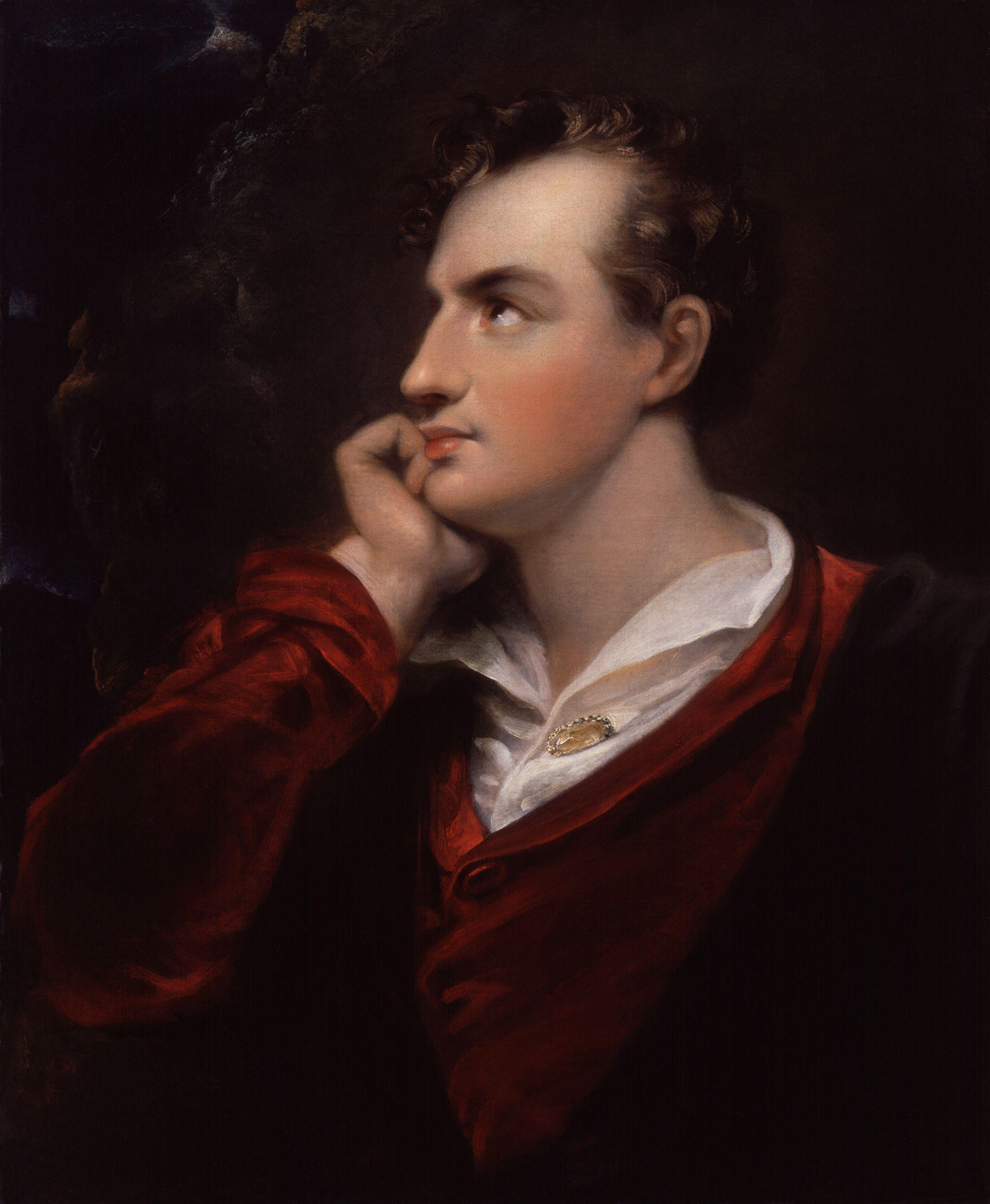 George Gordon Byron, 6th Baron Byron, by Richard Westall (died 1836). All images in this batch have been confirmed as author died before 1939 according to the official death date listed by the NPG.